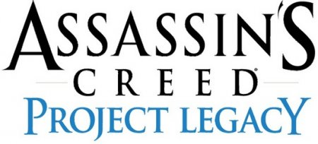 AC Proj Leg